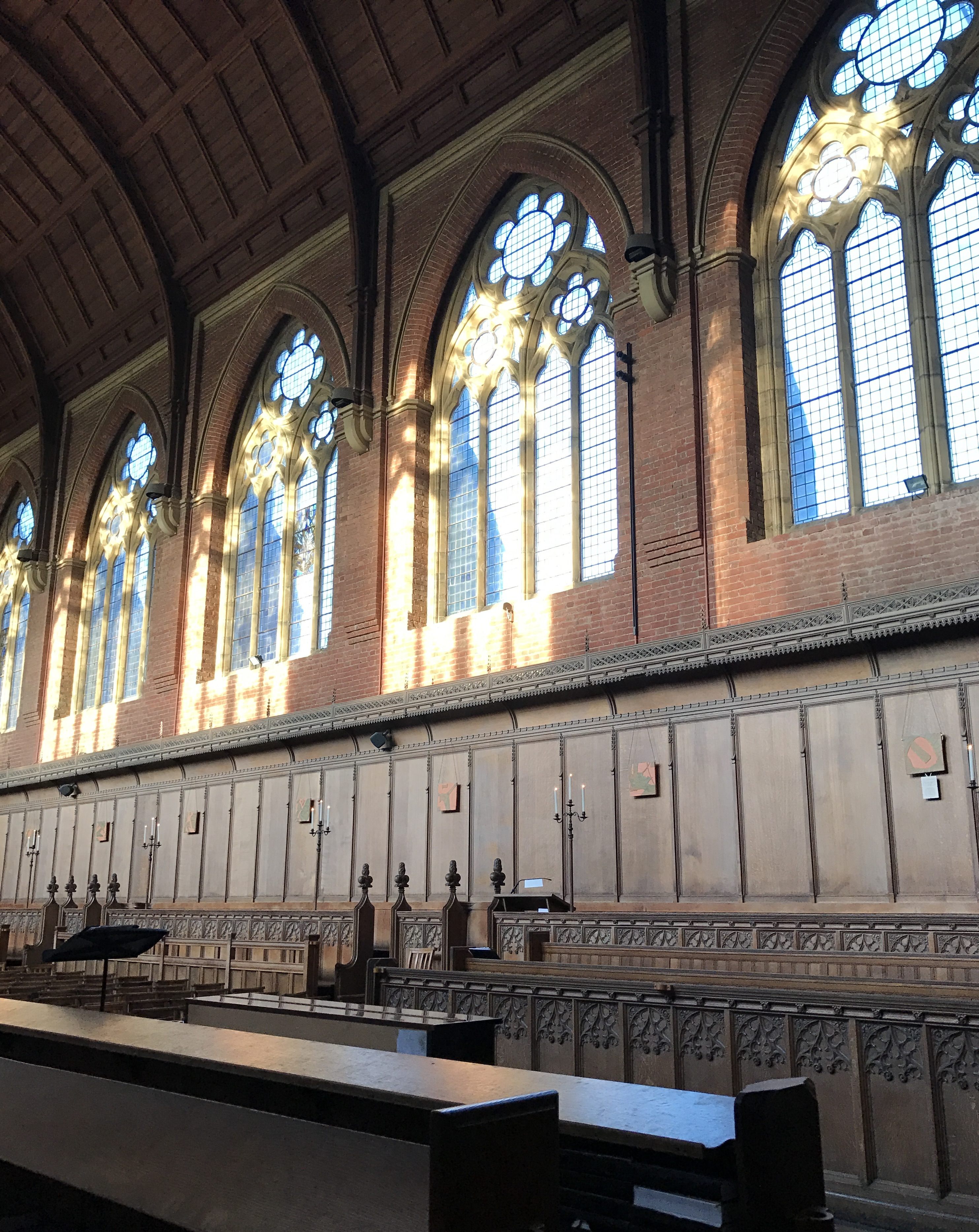 Ardingly College, West Sussex